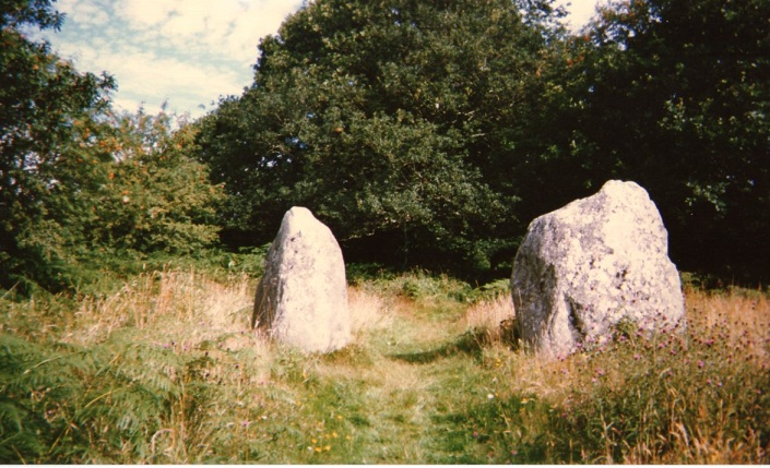 Stone Circle of Lissivigeen, near Killarney, Ireland